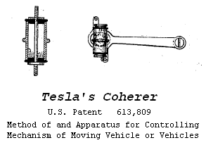 Drawings of a rotating coherer invented by Serbian-American engineer Nikola Tesla, from his US patent no. 613,809, application filed July 1, 1898, granted November 8, 1898. Drawings from Sheet 4 of patent application, fig. 7 (right) and 8 (left). with part labels removed and explanatory caption added. The coherer, invented in 1890 by Edouard Branly, was an antique radio component, an early radio wave detector used in the first radio receivers around 1900. It consists of a tube containing metal filings between two electrodes. A radio wave applied between the electrodes reduces the device's resistance, causing it to "turn on" and conduct electric current. This triggers a DC circuit with a battery, also connected to the electrodes. However, after the coherer is "turned on" by the radio waves, it's resistance stays low. To prepare it to receive the next radio signal, the filings must be "decohered", mechanically disturbed in order to return the device to the high resistance "off" state. Tesla's innovation in his coherer was to continuously rotate the coherer tube, to disturb the filings. Tesla used this device in a radio-controlled boat, one of the first remotely controlled vehicles. However simpler methods of "decohering" coherers were found, and Tesla's coherer wasn't much used.